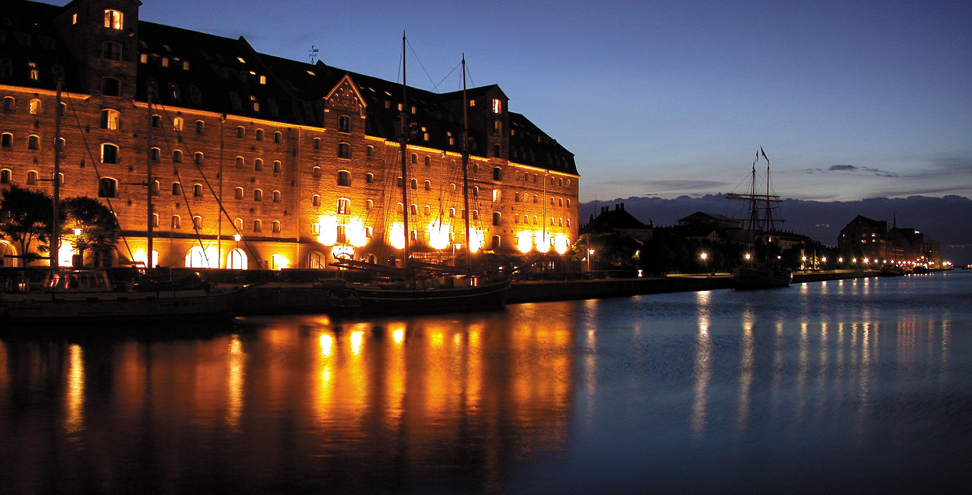 This is Copenhagen Admiral Hotel by night.